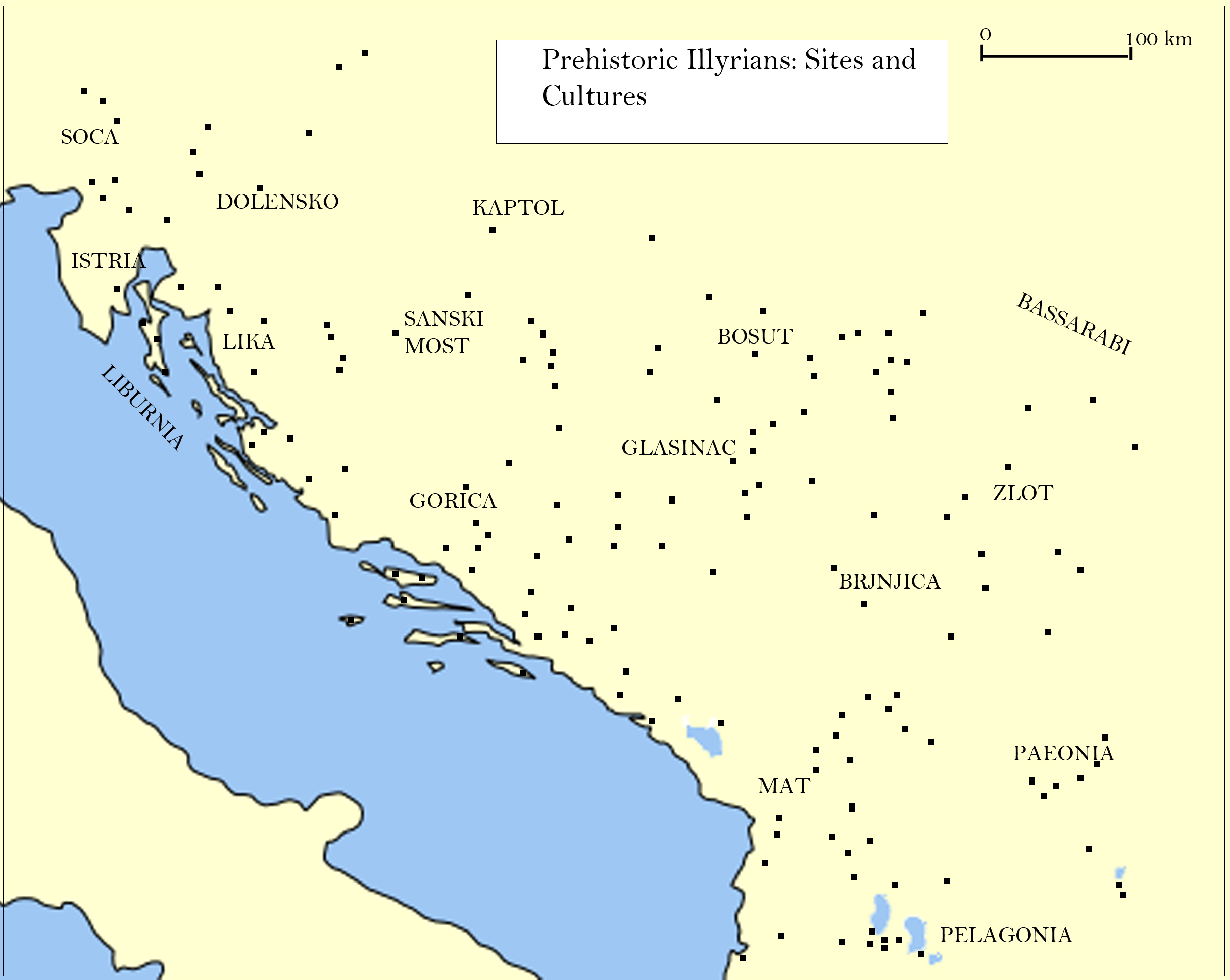 Prehistoric Illyrians;Sites and Cultures.Data from "The Illyrians (The Peoples of Europe) by John Wilkes,1996" *Blank Map